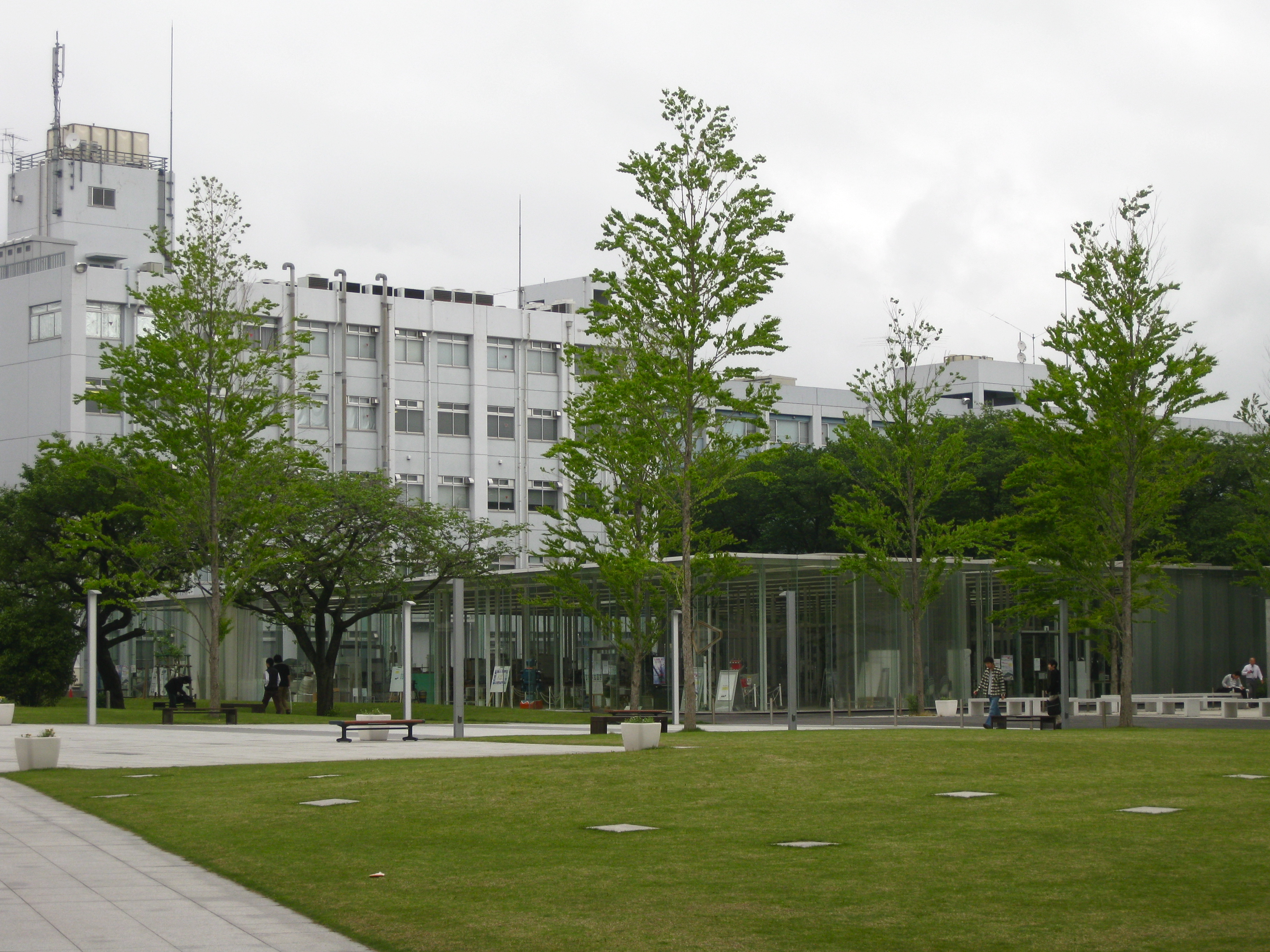 KAIT Workshop by Junya Ishigami, Kanagawa Institute of Technology, Japan